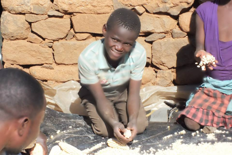 Prepping Mielie pap, the staple food in Lesotho This is an image of "African people at work" from Lesotho